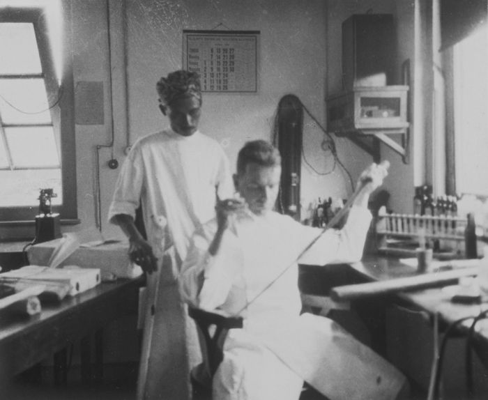 Dr. H.W. Hoesen set up inquiries into human blood in the Health Laboratory in Weltevreden, Batavia.